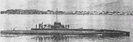 The French submarine Henri Fournier (built initially on Romanian order) shortly after being commissioned